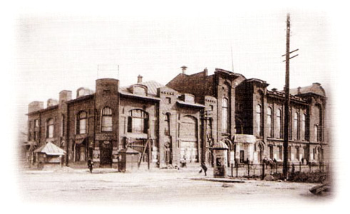 Кинематограф «Лоранж»